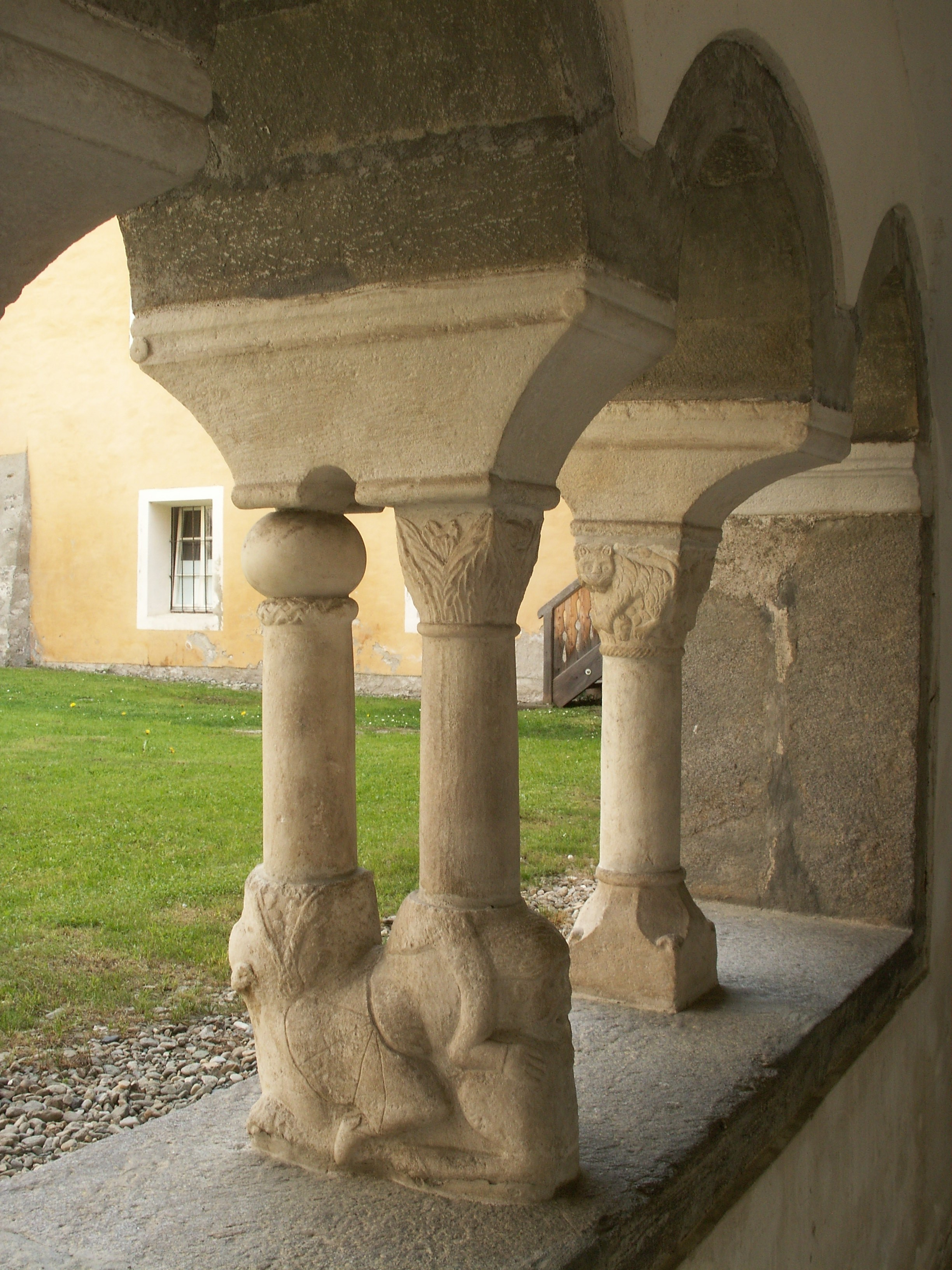 Detail of the romanesque cloister of Millstatt Abbey near Spittal an der Drau / Carinthia / Austria / EU.